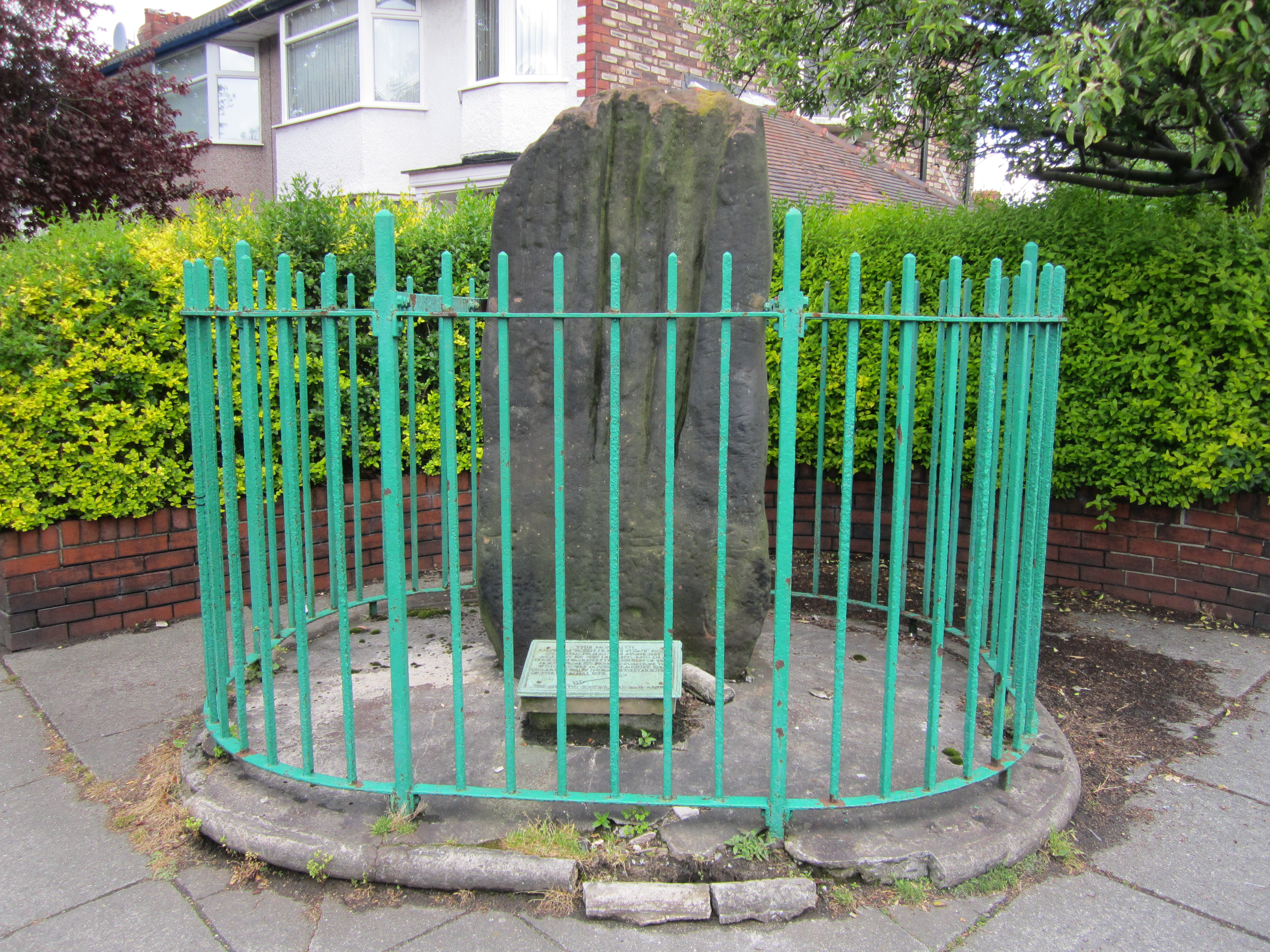 Robin Hood's Stone, on the corner of Archerfield Road and Booker Avenue, Allerton, Liverpool, England.